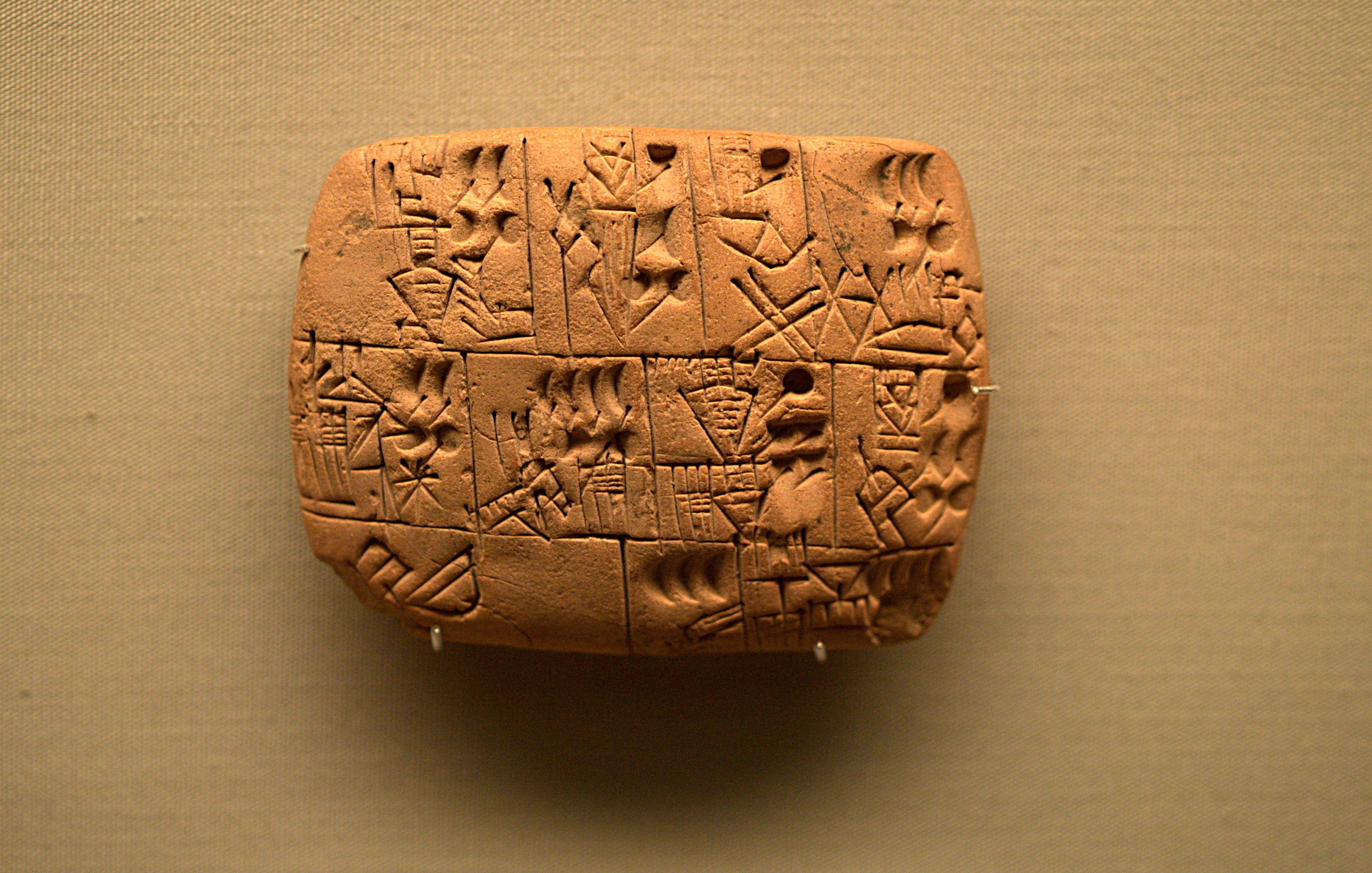 Proto-Cuneiform. "Probably from southern Iraq Late Prehistoric period, about 3100-3000 BC."